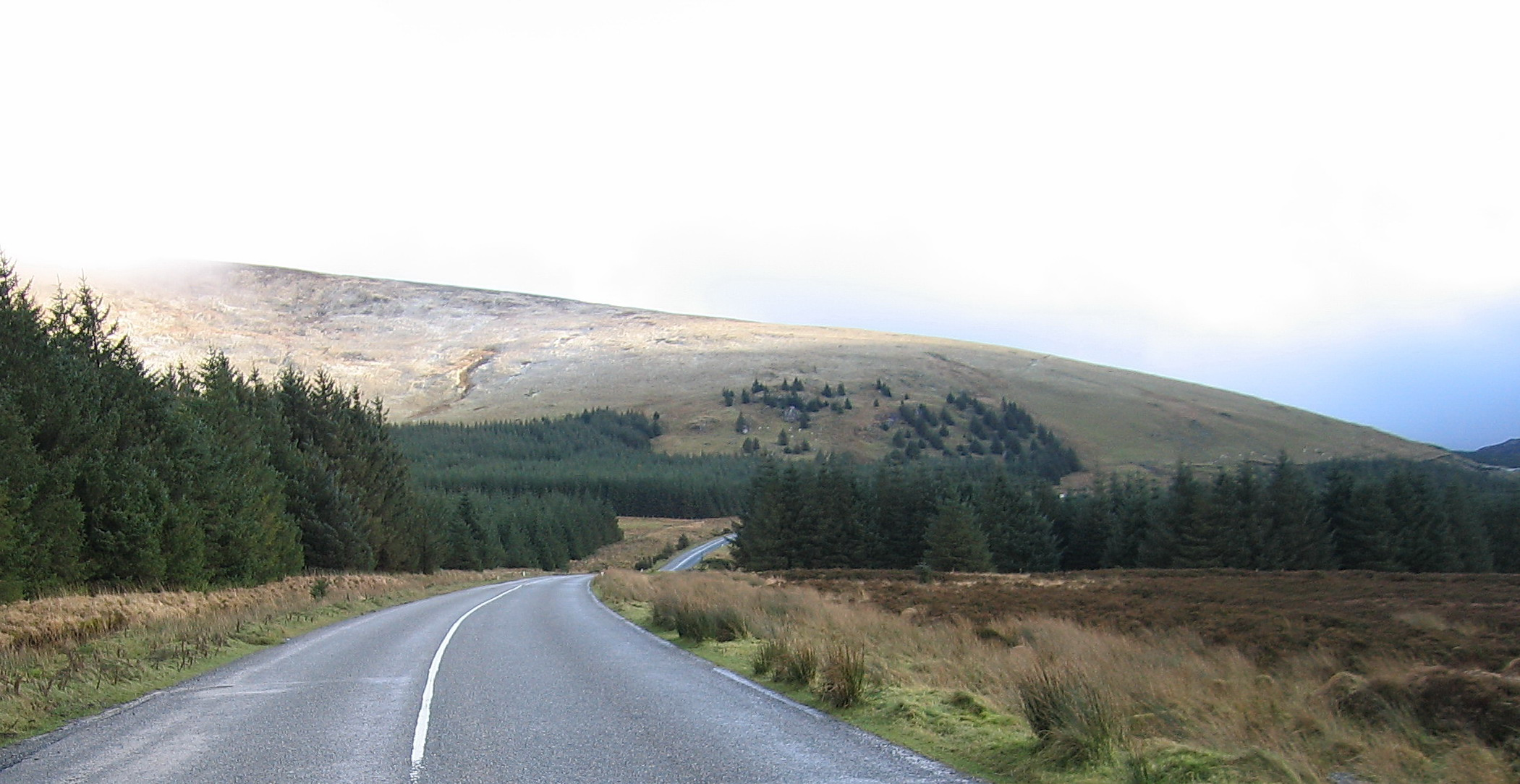 Tonelagee Mountain in the Wicklow Mountains approaching from the West on the Wicklow Gap road. (Sarah777 02:48, 21 January 2007 (UTC))